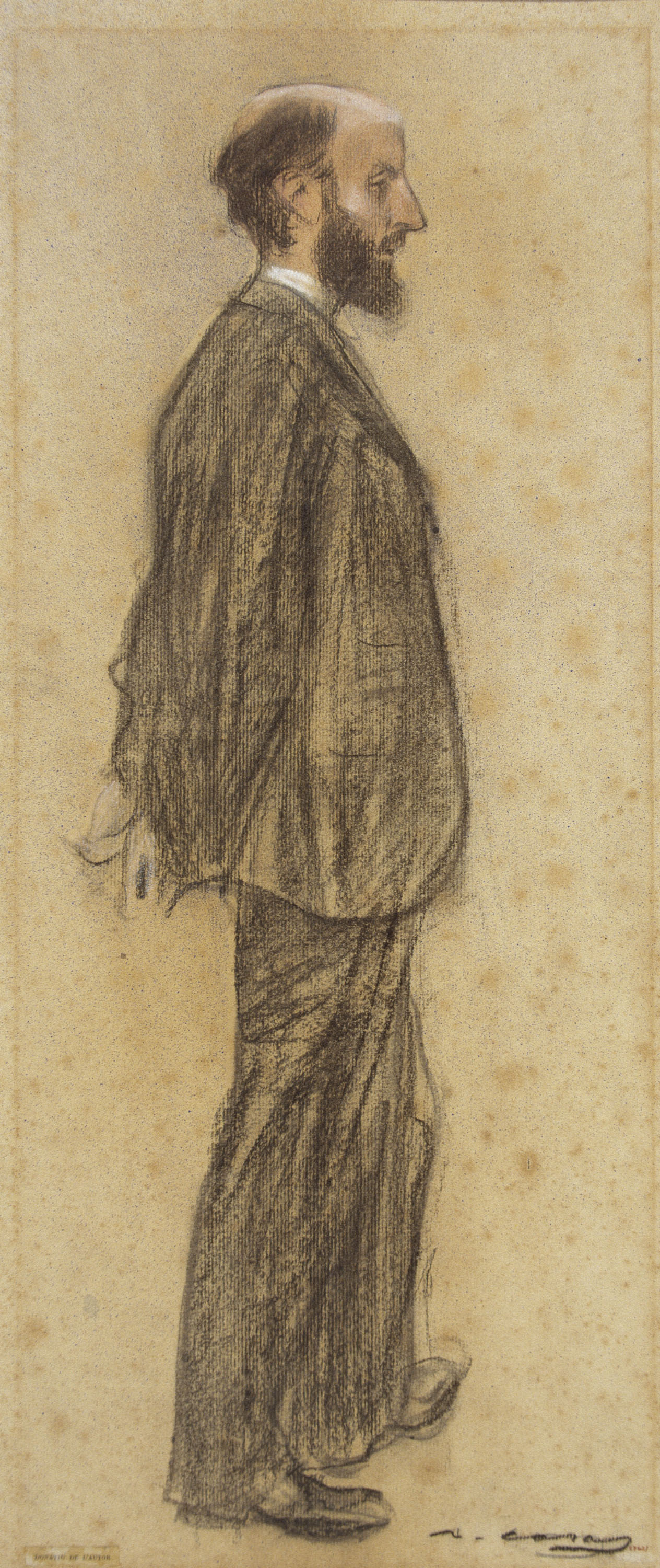 Portrait by Ramon Casas conserved at MNAC in Barcelona. Imagen 102